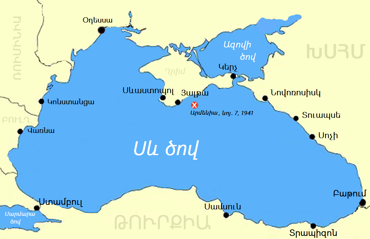 Approximate site of sinking, MV Armenia